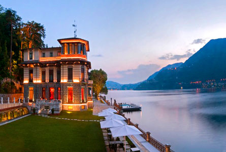 CastaDiva lago Como